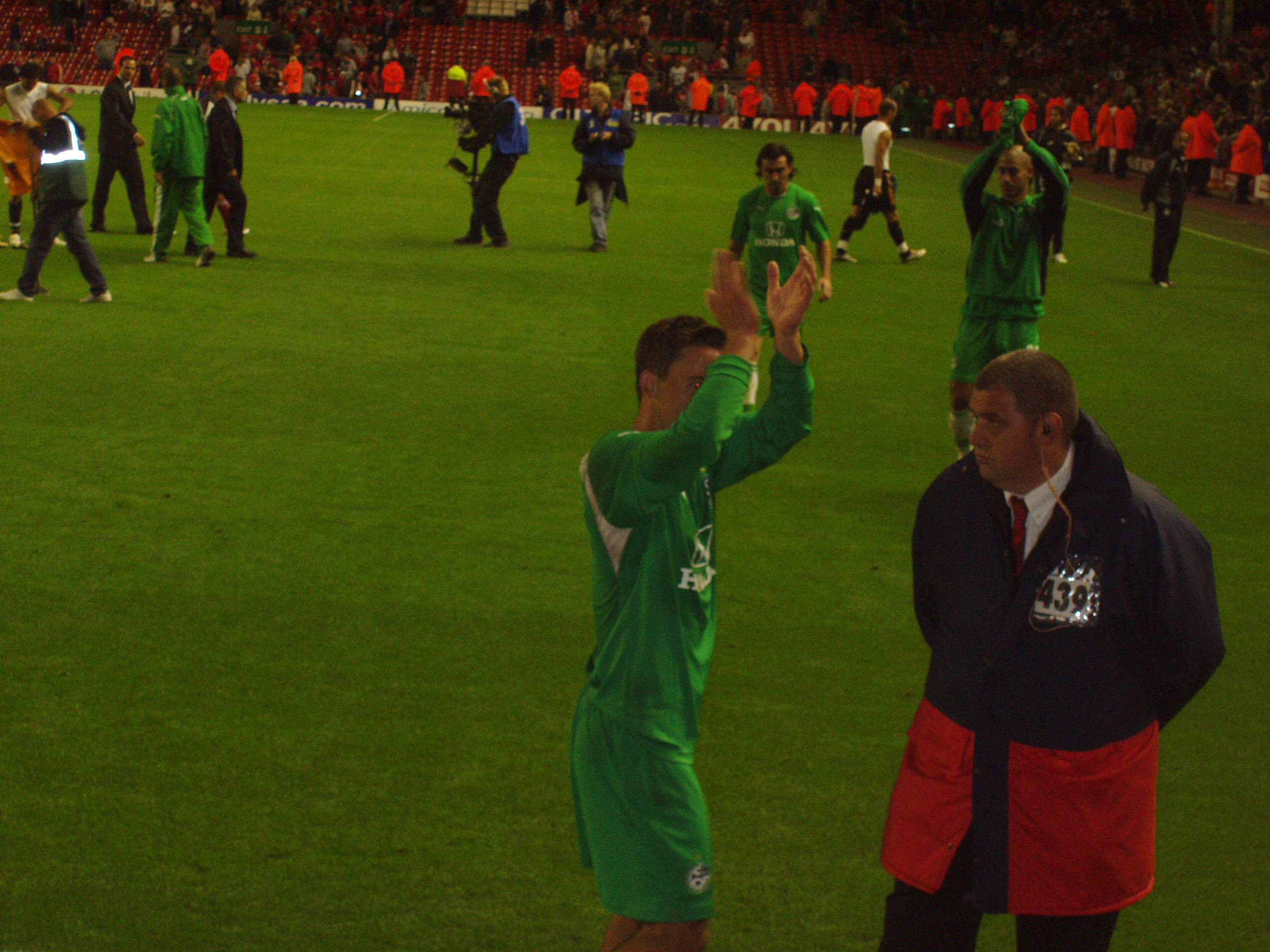 Gustavo Boccoli saluting the Haifa supporters after a UEFA Champions League match against Liverpool F.C. at Anfield.